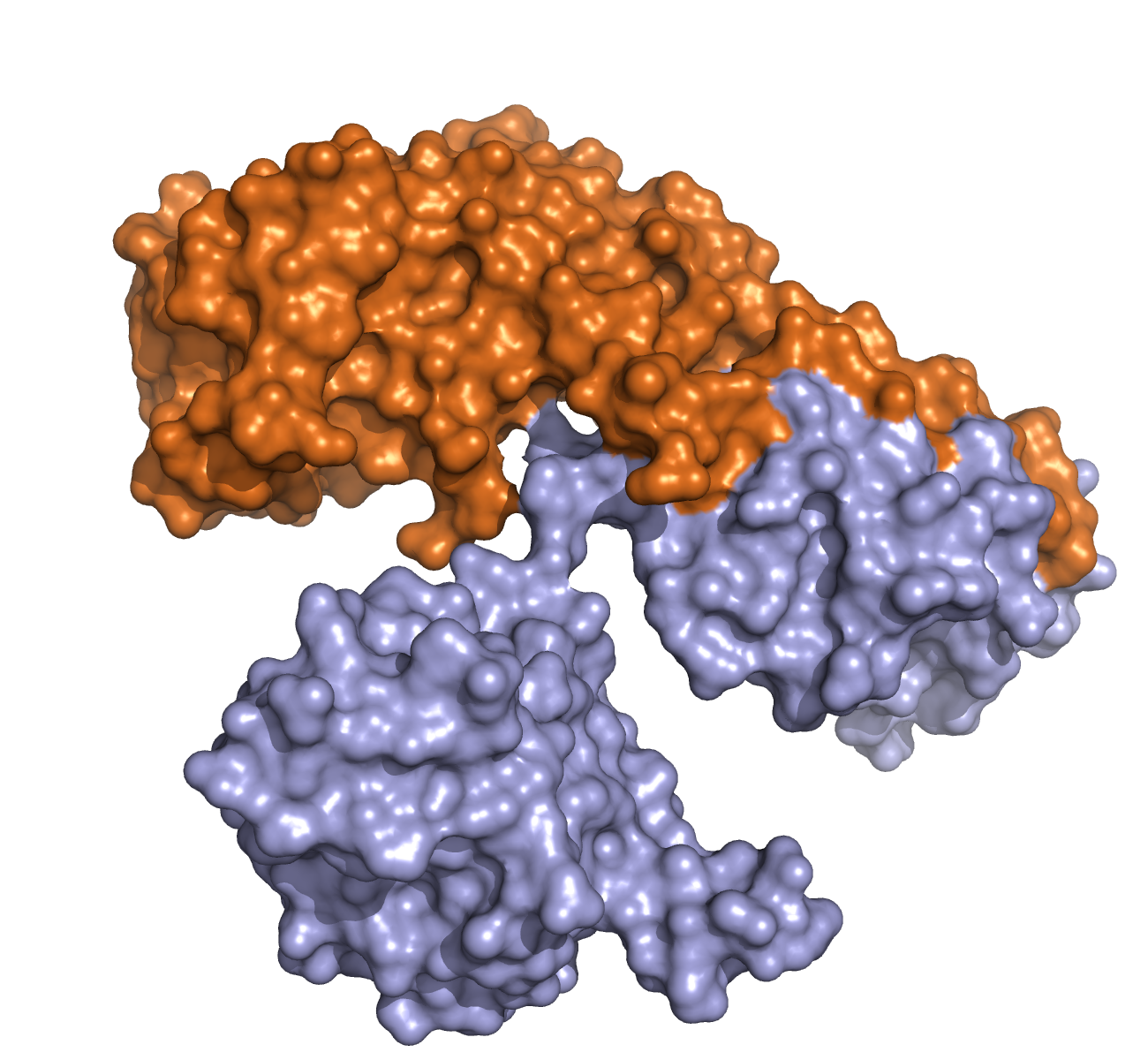 surface model of diphtheria toxin monomer with chain A (ADP-ribosyltransferase, EC 2.4.2.36) in orange, and chain B blue from PDB 1DDT. Ref.: M.J.Bennett et al. (1994). Refined structure of dimeric diphtheria toxin at 2.0 A resolution.. Protein Sci, 3, 1444-1463. PMID 7833807